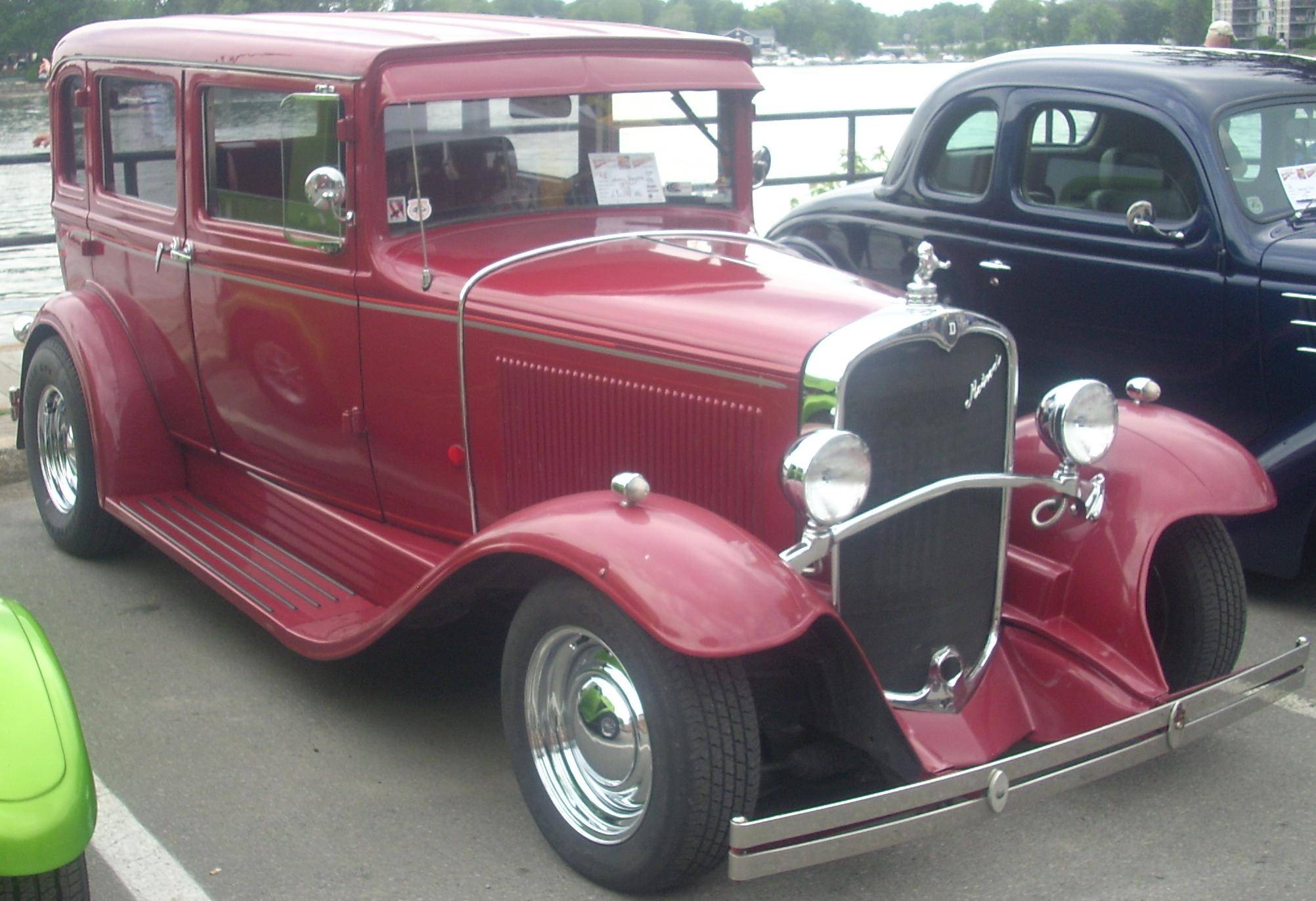 Customized 1928 Durant Sedan photographed in Ste. Anne De Bellevue, Quebec, Canada at Cruisin' At The Boardwalk 2010.